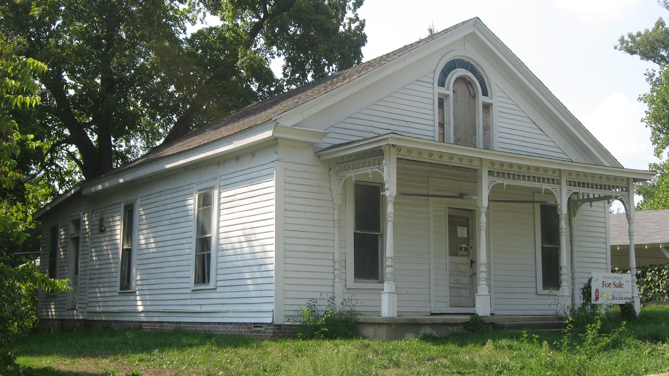 Front and southern side of the T.C. Steele Boyhood Home, located at 110 S. Cross Street in Waveland, Indiana, United States. Built in 1850, it is listed on the National Register of Historic Places.